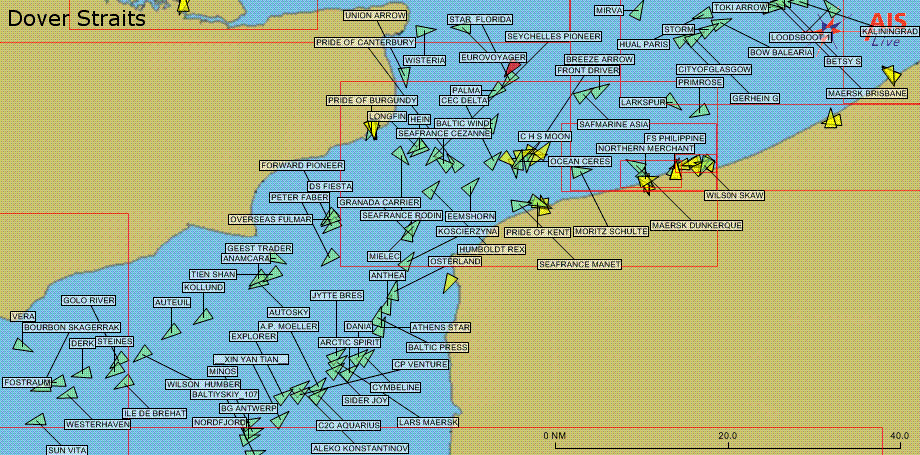 Display of maritime traffic provided by AIS. Only vessels equipped with AIS are displayed, which excludes most fishing boats, pleasure craft, inland navigation and vessels less than 300 tons. Location: Dover Straits/English Channel.